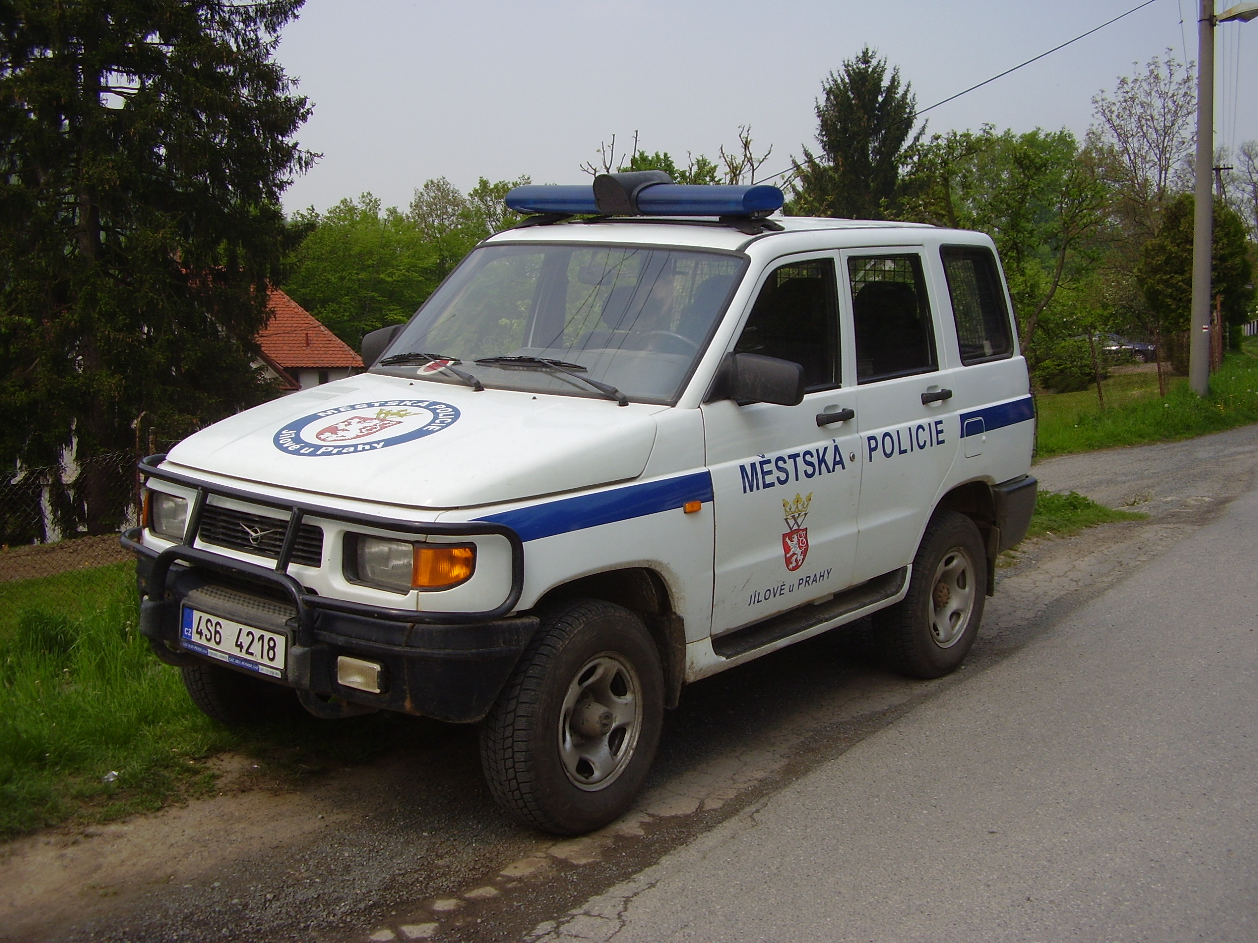 Car of metropolite police Jílové u Prahy